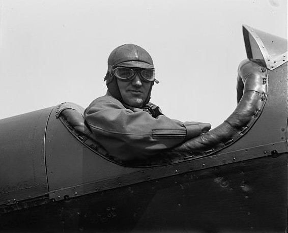 Frederick Trubee Davison (1896-1976) as Assistant Secretary of War at Bolling Field